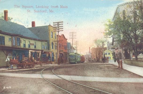 The square, looking from Main Street, Sanford, Maine